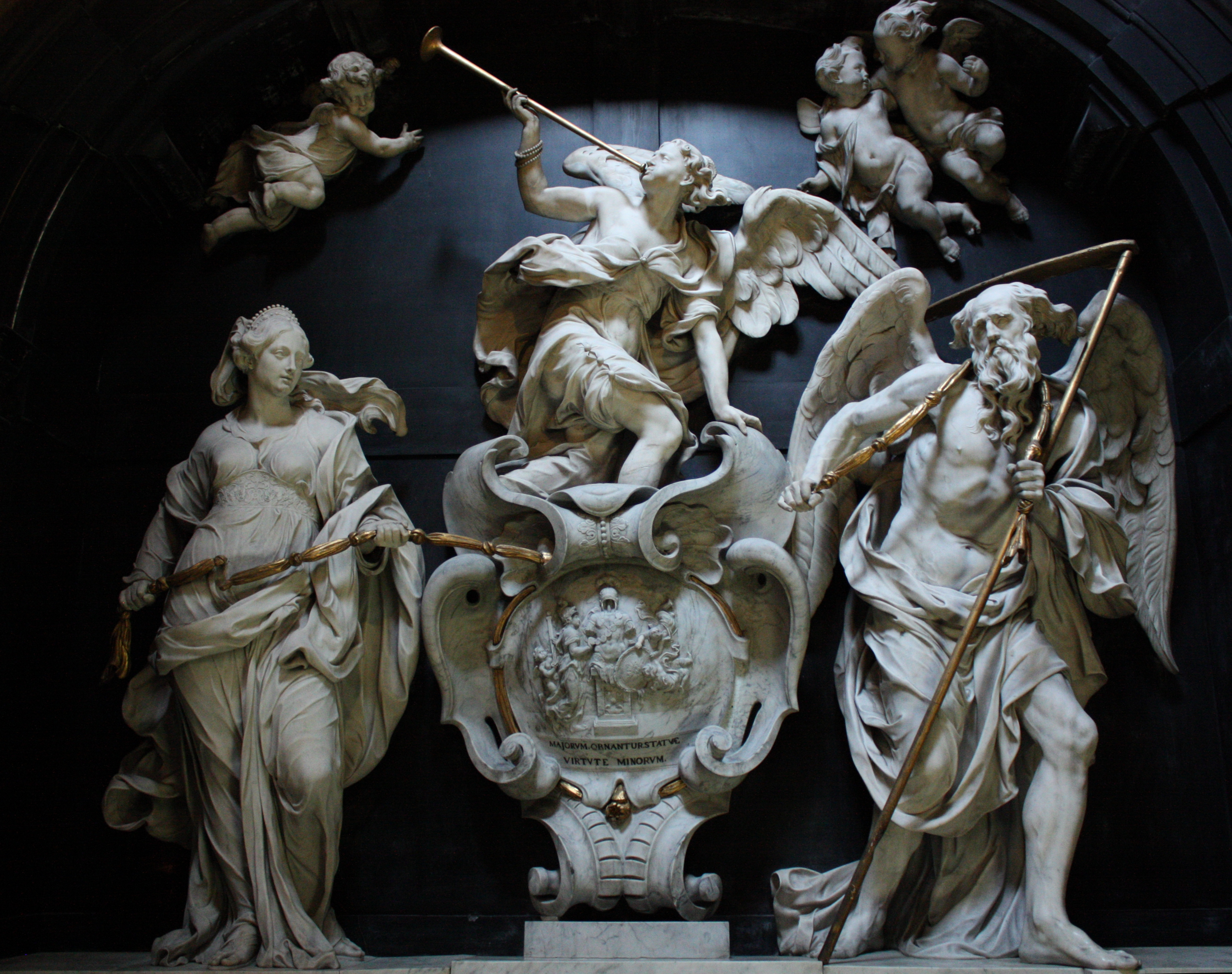 Sculpture from the funeral monument of Imperial Postmaster-General Lamoral II Claudius Francis Count of Thurn and Taxis by Mattheus van Beveren in the Zavel/Sablon Church in Brussels.